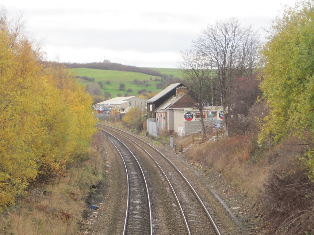 Farnley & Wortley railway station (site), YorkshireOpened in 1848 on the London & North Western Railway's line from Leeds to Huddersfield, this station was resited to the left (hidden by the trees) when the "viaduct" line into Leeds opened in 1882, and the platforms on the original line were removed. The station closed in 1952 and the line to the left has been removed. View south west towards Cottingley and Huddersfield.